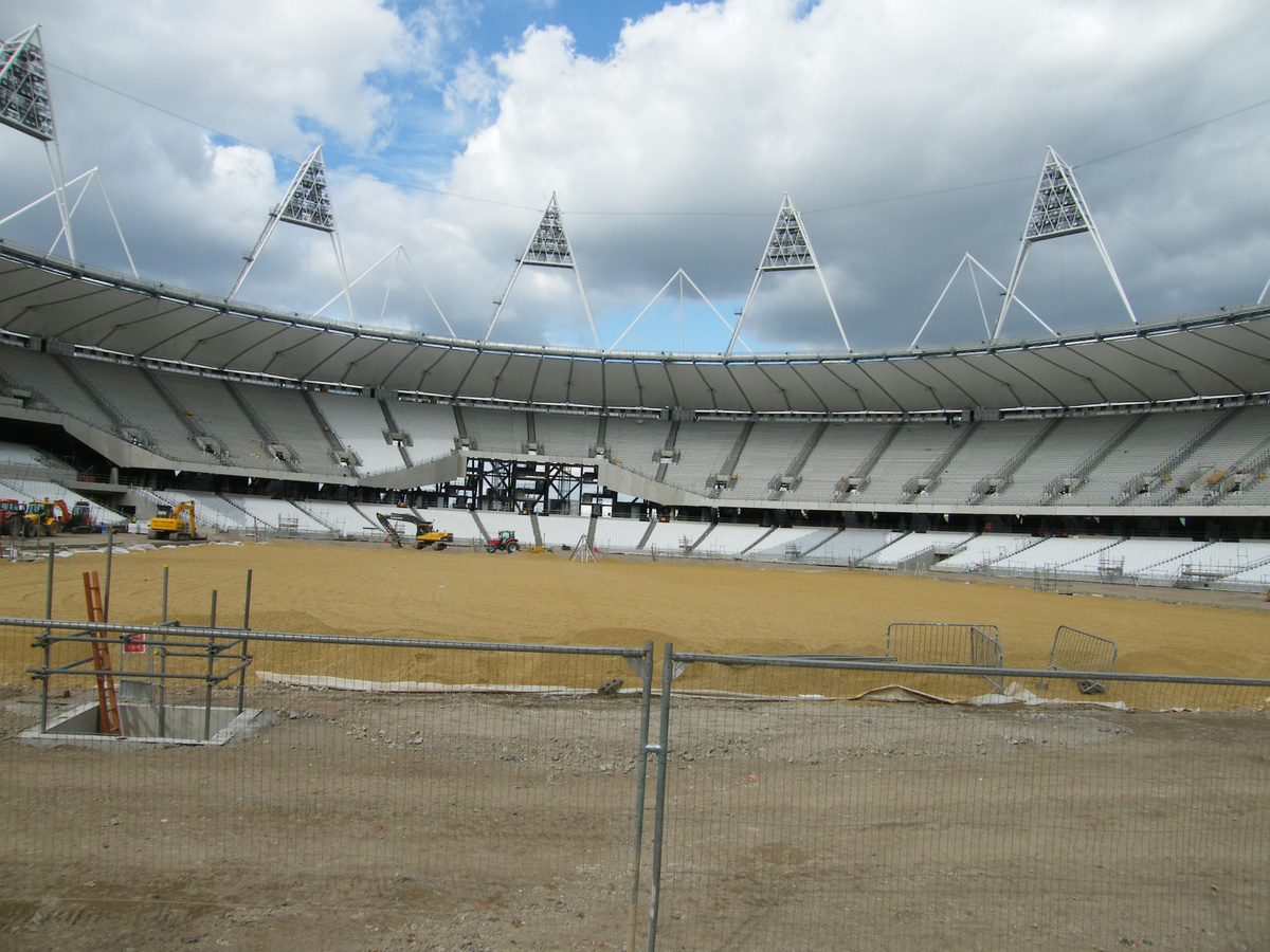 Inside of London 2012 Olympic stadium whilst under construction.